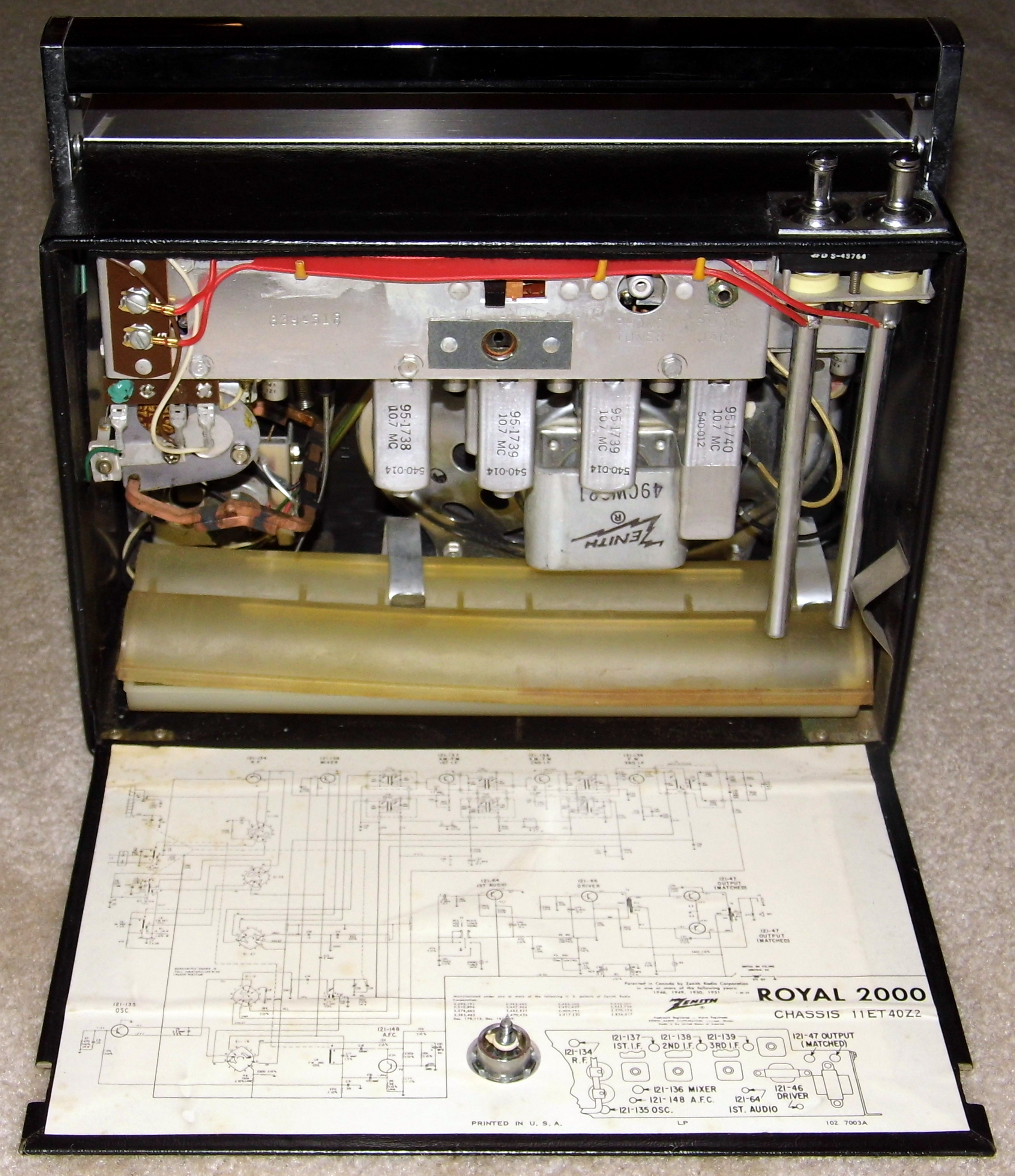 Vintage Zenith Royal 2000 Trans-Oceanic Transistor Radio, Chassis 11ET40Z2, Made in the USA